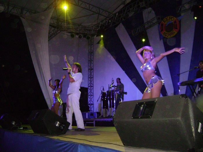 This is a picture of "Teatro del pueblo" stage, performing international music group "El simbolo" in Expo Atoyac 2008